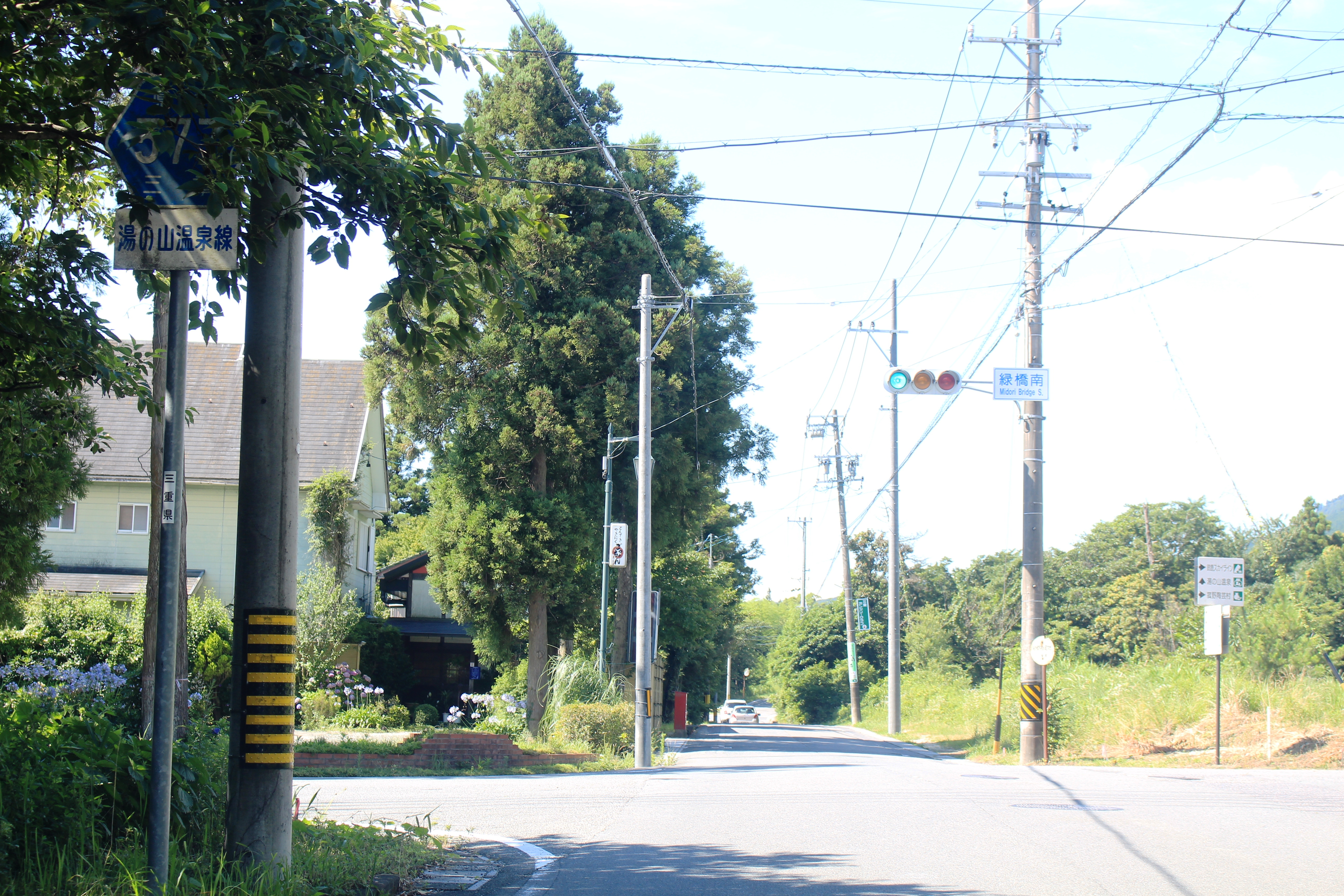 Mie Prefectural Road Route 577 and Mie Prefectural Road Route 626 in Chikusa, Komono, Mie Prefecture, Japan.